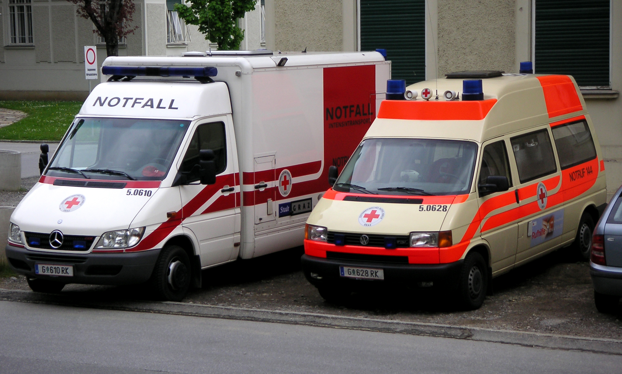 Red Cross Ambulances in Graz, Austria. Left one is a MICU-type (Mobile Intensive Care Unit), right one is an emergency ambulance. Side view.